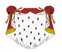 Pavillion - heraldy